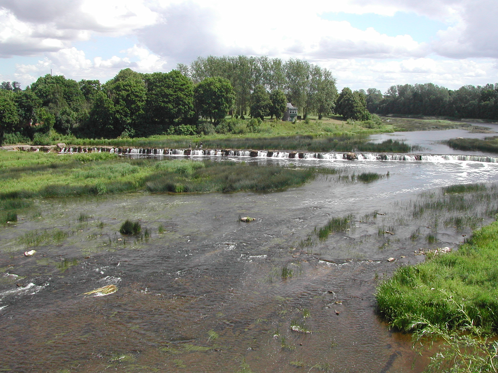 Waterfall Ventas Rumba in Kuldīga, Latvia